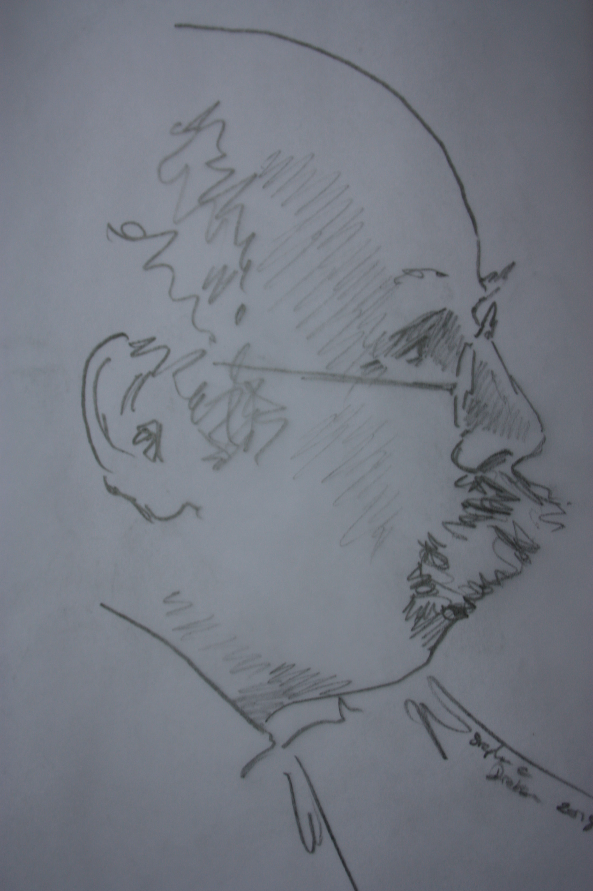 Pencil sketch of William Napier Shaw by Stehen C Dickson